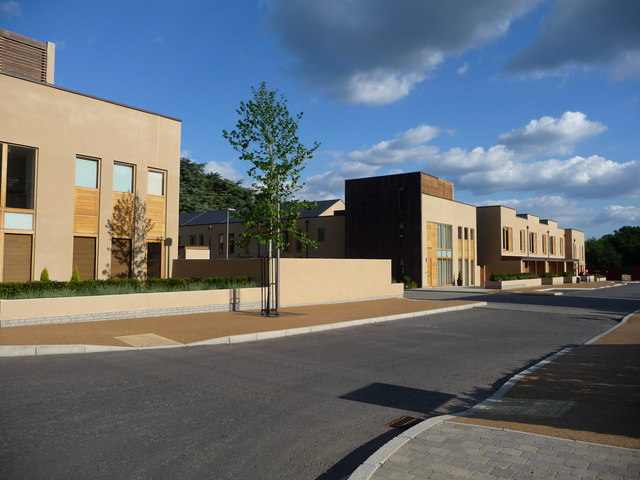 New Housing on site of former Canadian Red Cross Memorial Hospital This is a real photo!-not an architect's mock up!-of real houses.